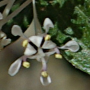 Flower of Ceanothus fendleri, Upper Crossing Trail, Bandelier National Monument. The hooded or spoon-shaped parts are the petals.